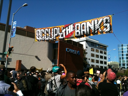 Large banner put up by protesters during a march on Nov. 2. Occupy Oakland General Strike